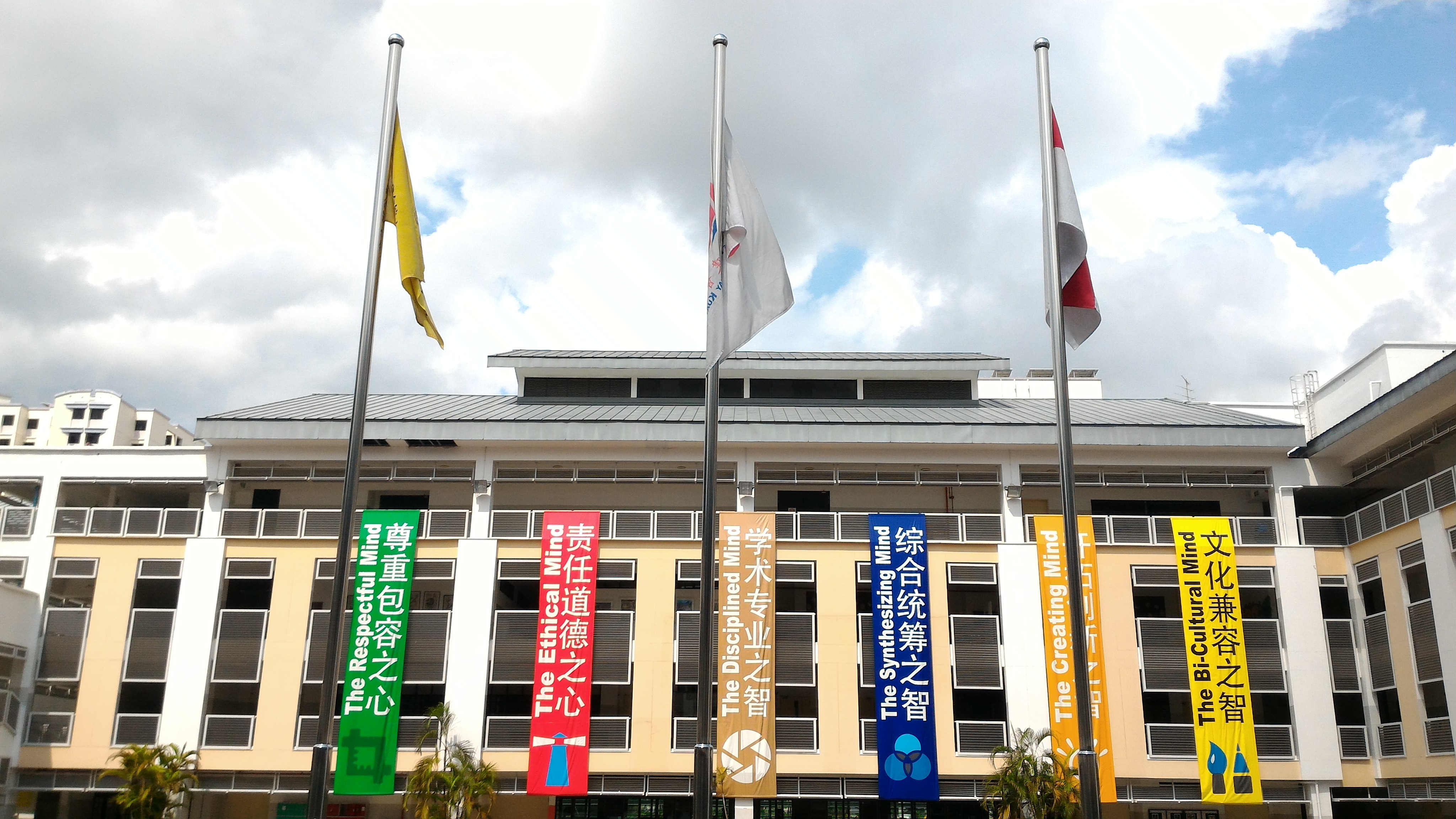 Nan Chiau High's Block D (Aesthetics Block), viewed through the Park Square across the Quadrangle. Taken on 6 January 2016